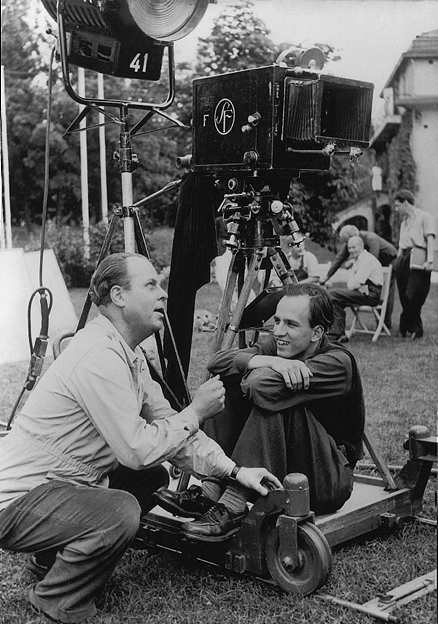 Ingmar Bergman during production of Crises (1946).